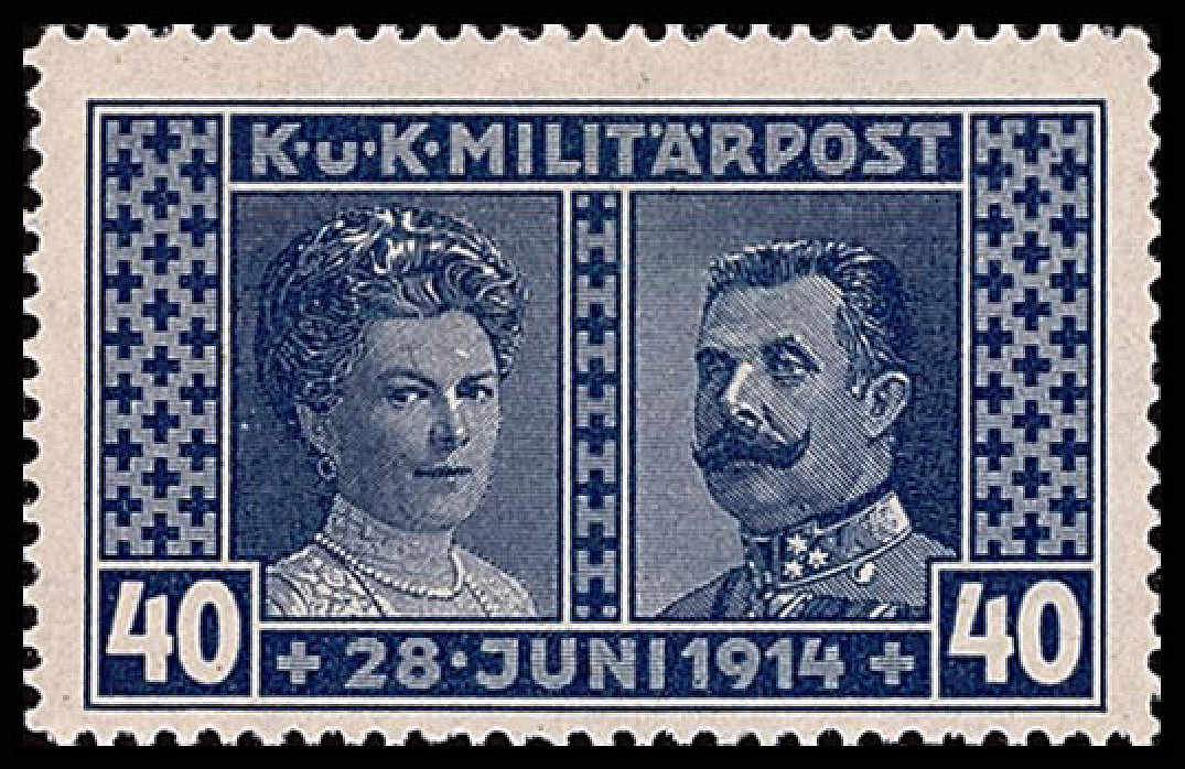 Postage stamp for Bosnia and Herzegovina, in memory of archduke Franz-Ferdinand and Sophia, duchess of Hohenberg, killed on june, 28, 1914, 40 heller, 1917